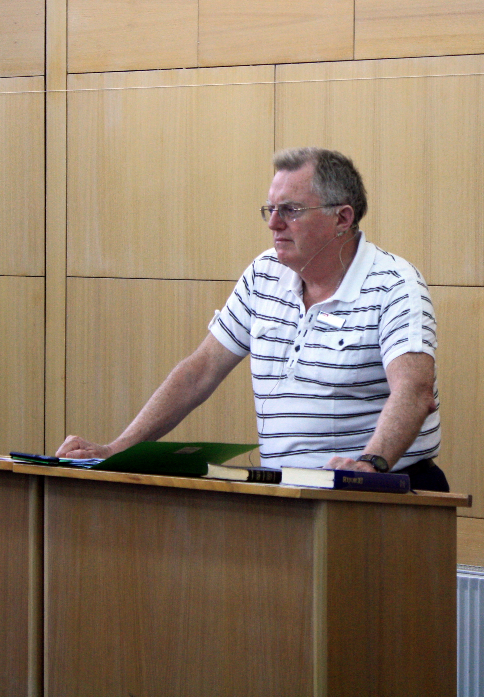 Taken on 17 August 2012 at the Presbyterian Theological College in Melbourne, Australia, during an intensive week of lectures on the History of Biblical Interpretation.